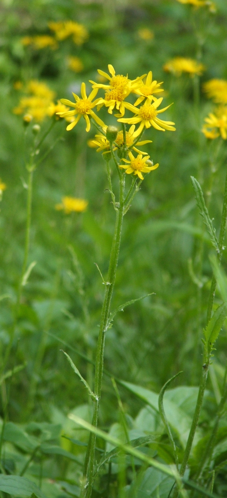 Prairie Groundsel (Packera plattensis) in bloom in Iowa City, Iowa, in late May.